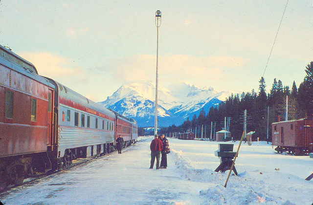 Looking east from the Banff CPR station, late 1959. I always liked that Tuscan red of the CPR. I like it even more now that it's so rarely seen. Under the snow to the right of the platform are a few tracks which in earlier times were available to the privileged classes in their private rail cars. During the summer, that would be.